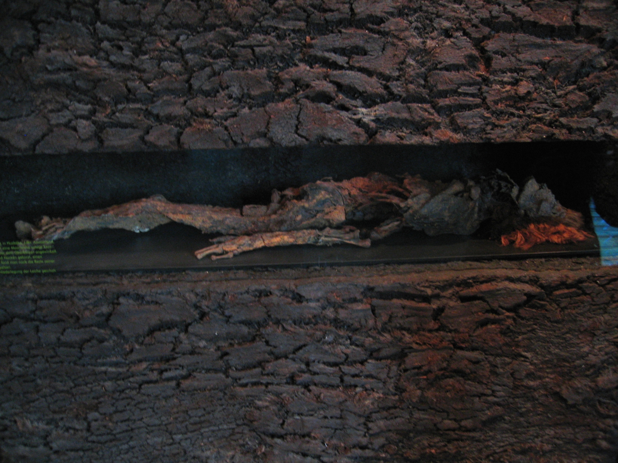 The bog body of the Husbäke Man on display at Landesmuseum für Natur und Mensch, Oldenburg (Oldenburg), Germany. Found in 1936 in the Vehnemoor near Edewecht. C14 dated between 75 and 215 AD.